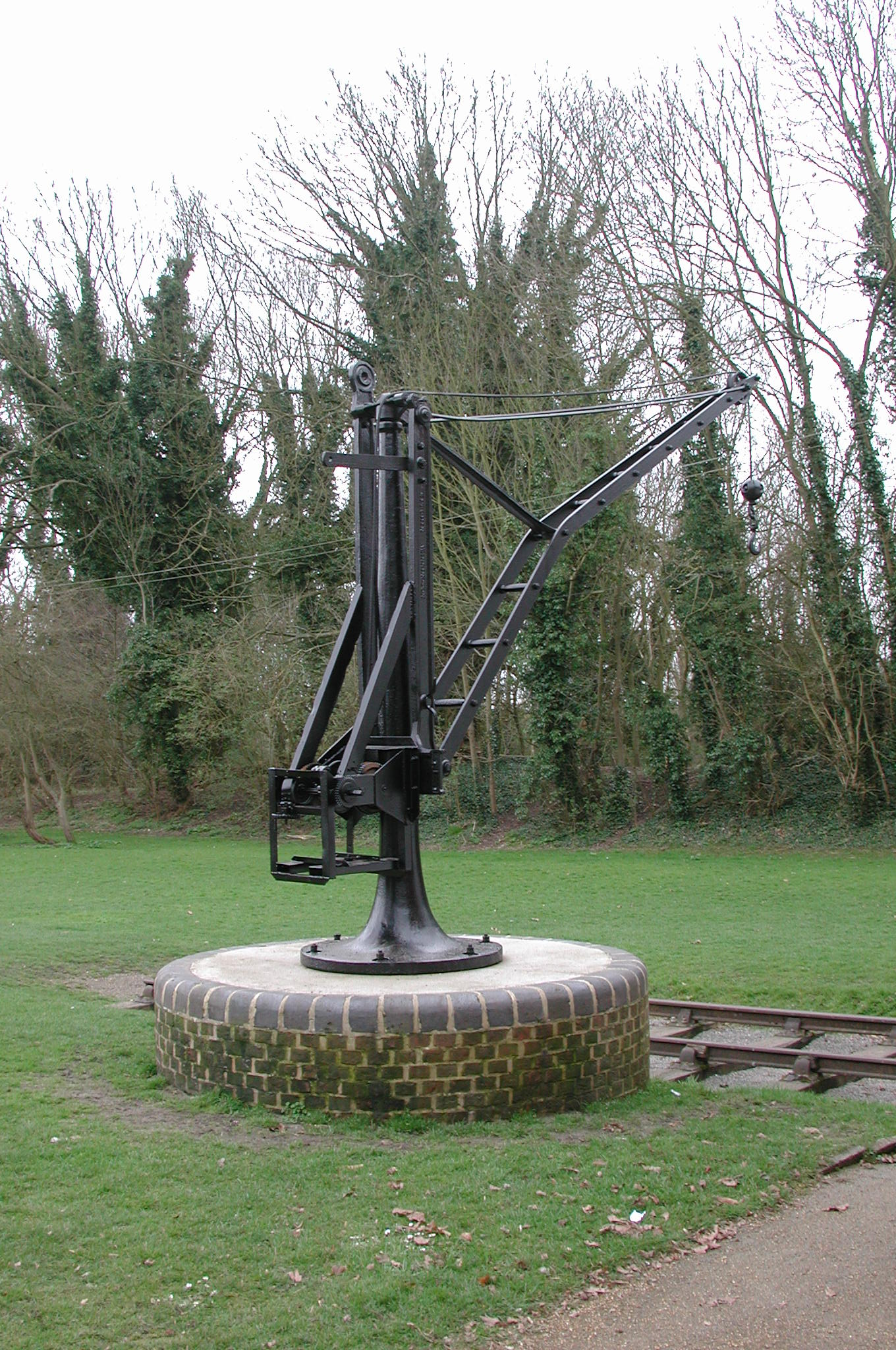 This photograph was taken by Tim Rogers on 25 March 2005. He agrees to licence it under the terms of the GNU Free Documenation License.